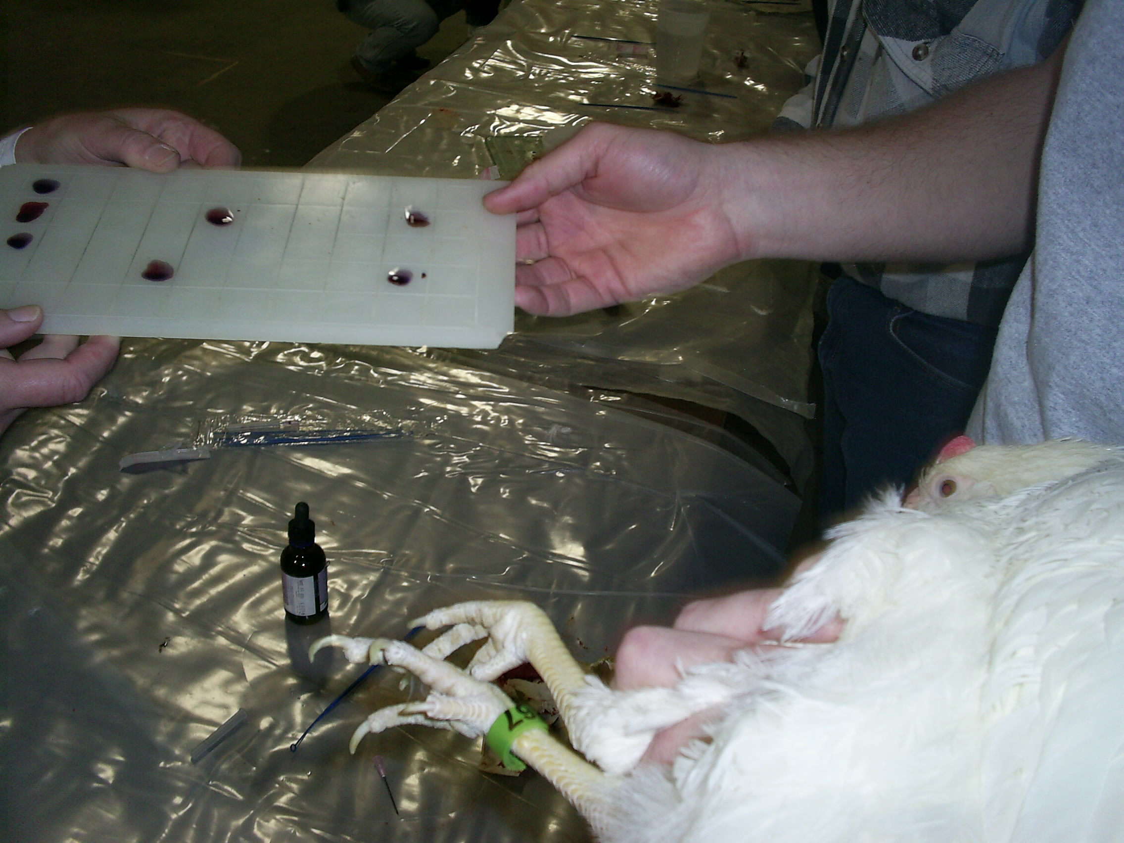 Pullorum testing training at Michigan State University